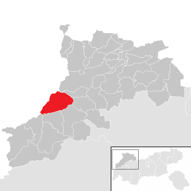 District Reutte